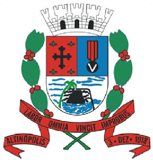 Brasão do município de Altinópolis, estado de São Paulo, Brasil. Fonte: Website da prefeitura. Coat of Arms of the city of Altinópolis, São Paulo state, Brazil. Based on the city oficial website This work is in the public domain in Brazil for one of the following reasons: It is a work published or commissioned by a Brazilian government (federal, state, or municipal) prior to 1983.(Law 3071/1916, art. 662; Law 5988/1973, art. 46; Law 9610/1998, art. 115) It is the text of a treaty, convention, law, decree, regulation, judicial decision, or other official enactment.(Law 9610/1998, art. 8) . Emerson